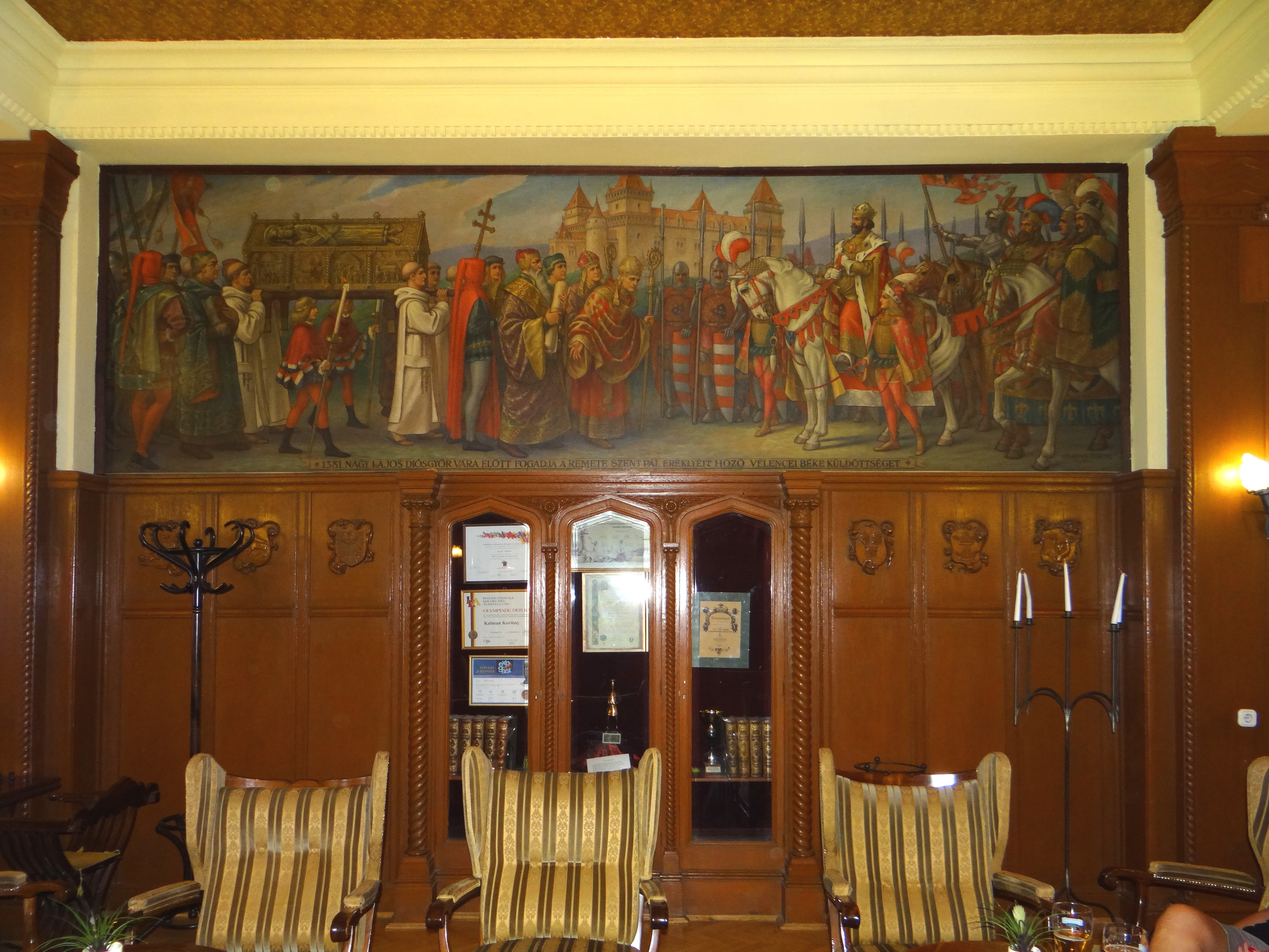 Painting by Ferenc Helbing in the Palace Hotel lobby, Lillafüred, Hungary